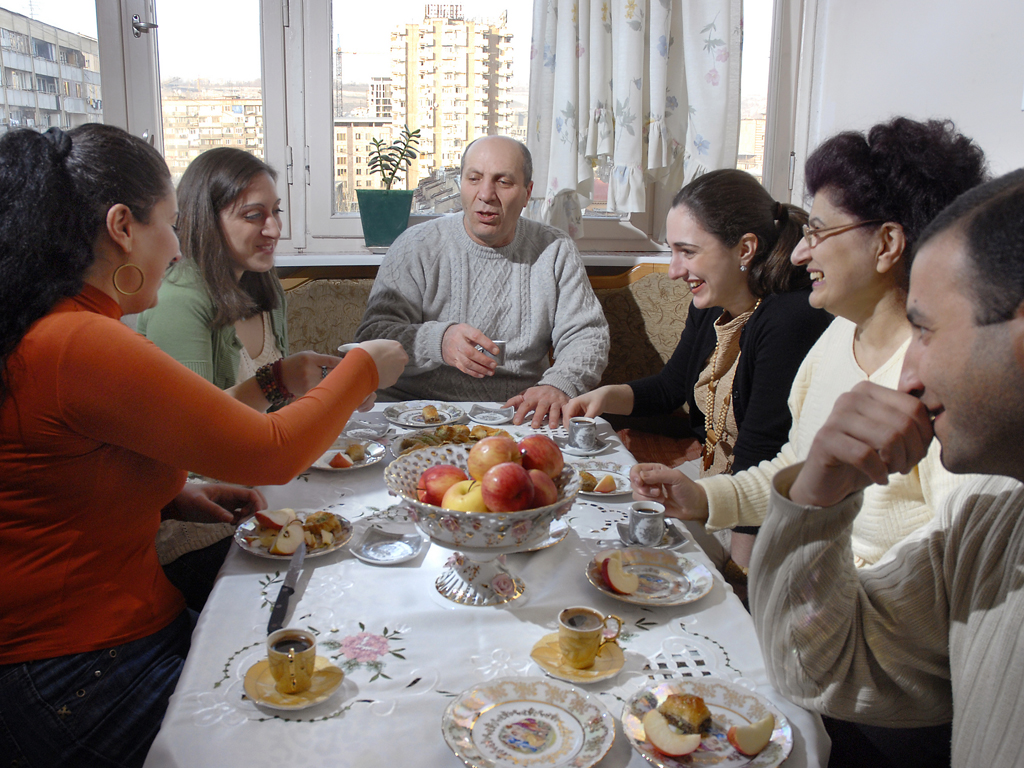 Taking part in the homestay experience is one way to immerse yourselves in the daily Armenian lifestyle.